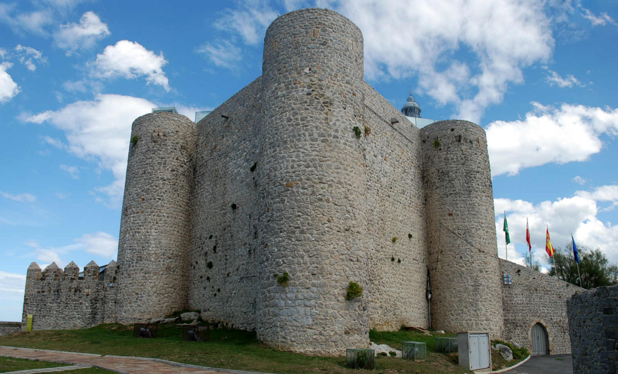 Castle of Castro Urdiales (Cantabria).